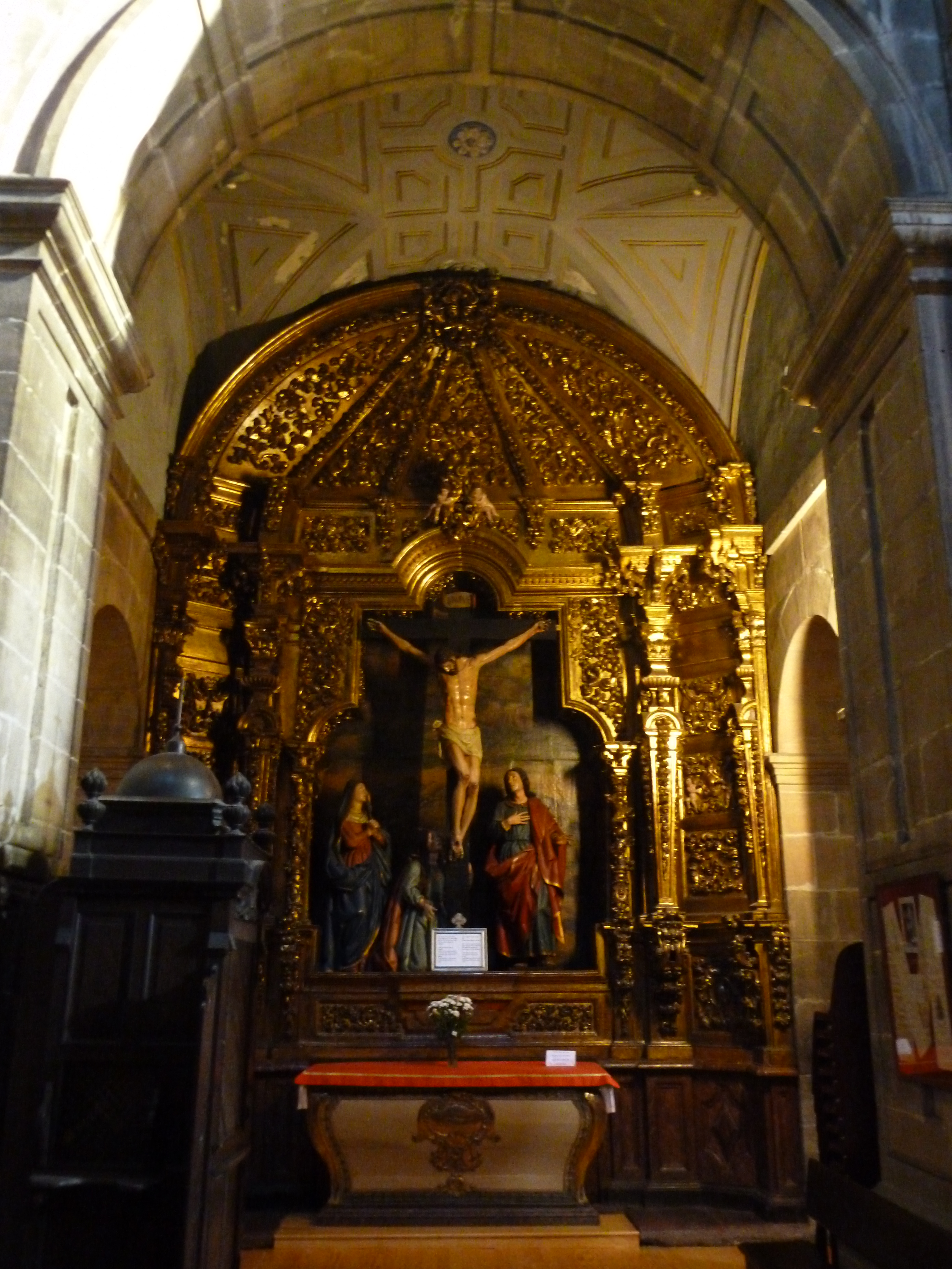 Church of San Isidoro el Real, Oviedo